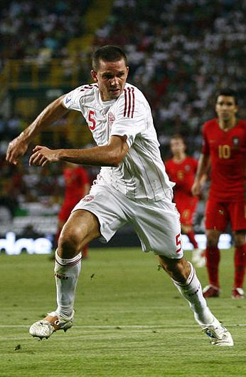 Leon Andreasen (5), Deco (10), Nani (7); Portugal 2-3 Denmark, Lisbon September 10 2008